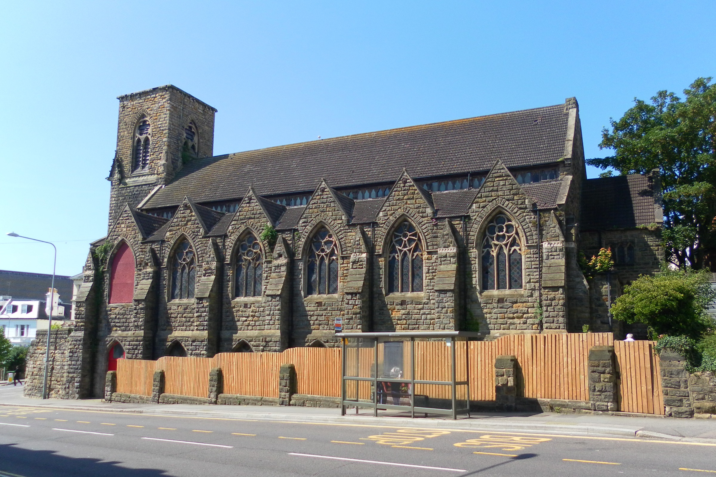 Former Congregational Church, London Road, Hastings, East Sussex, seen from the northeast